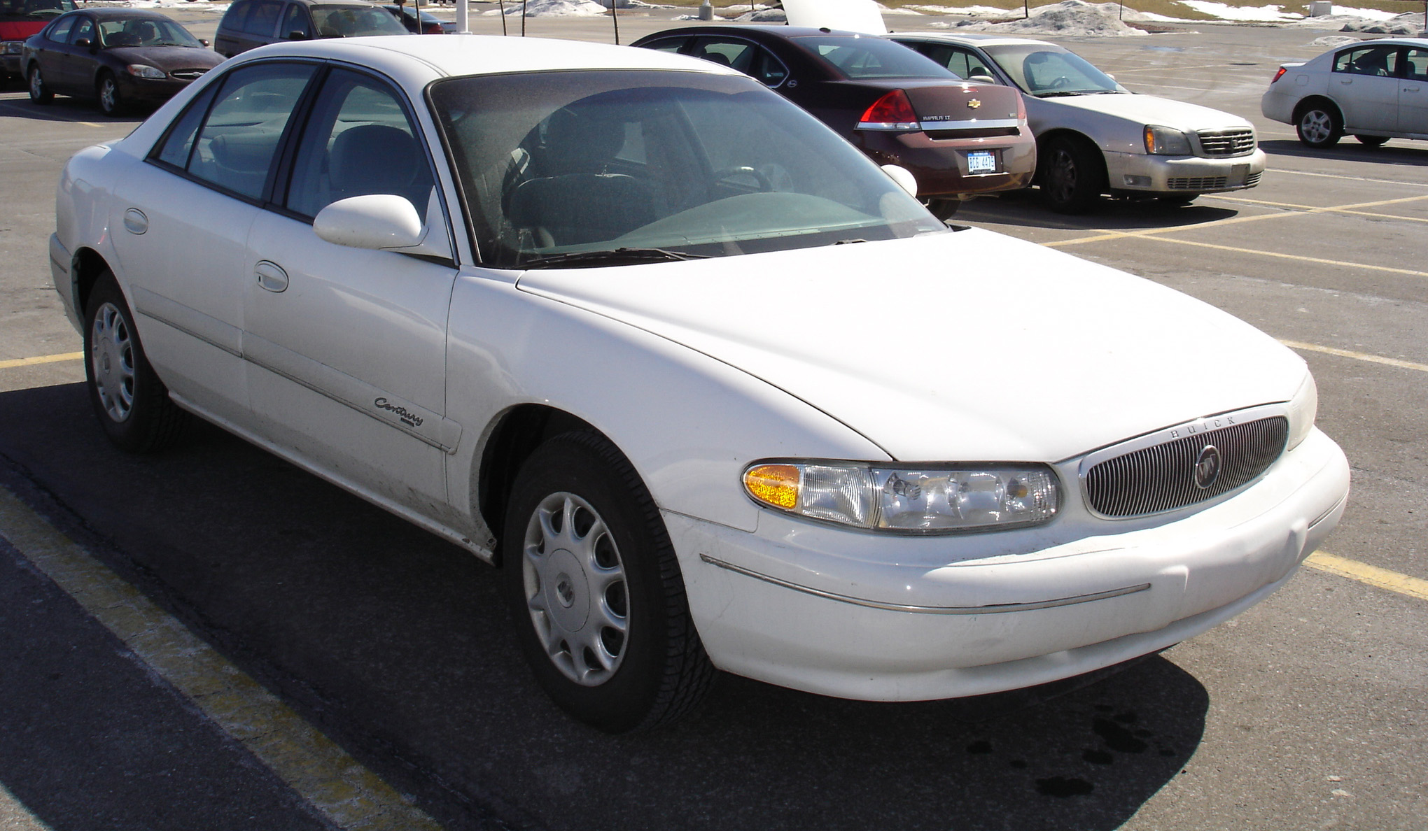 2001 Buick Century